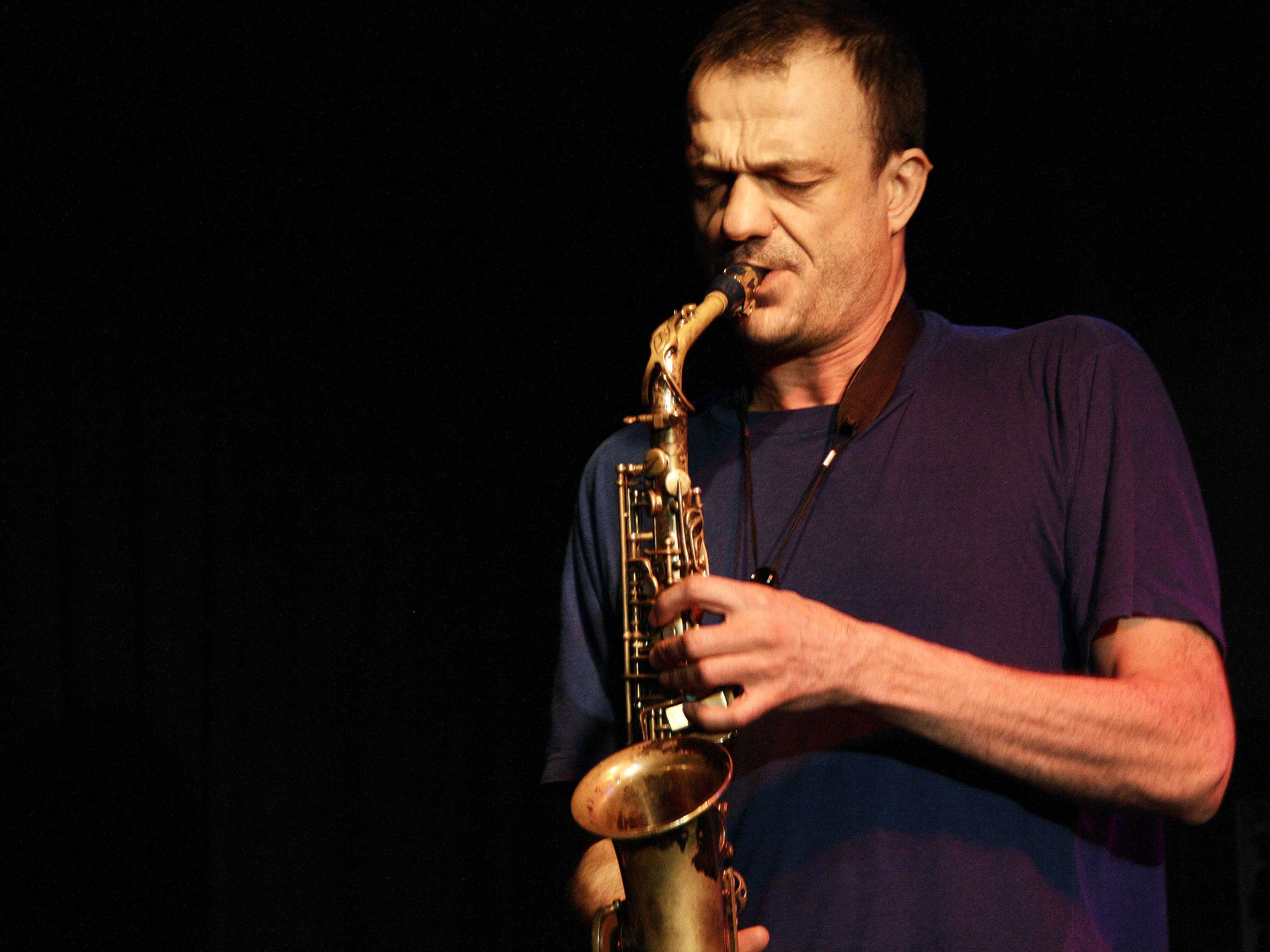 With The Ames Room at Club W71, Weikersheim